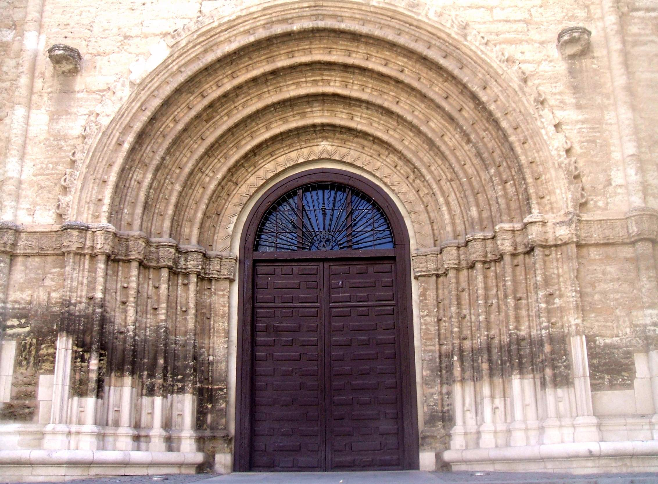 Iglesia de San Pedro, Ciudad Real